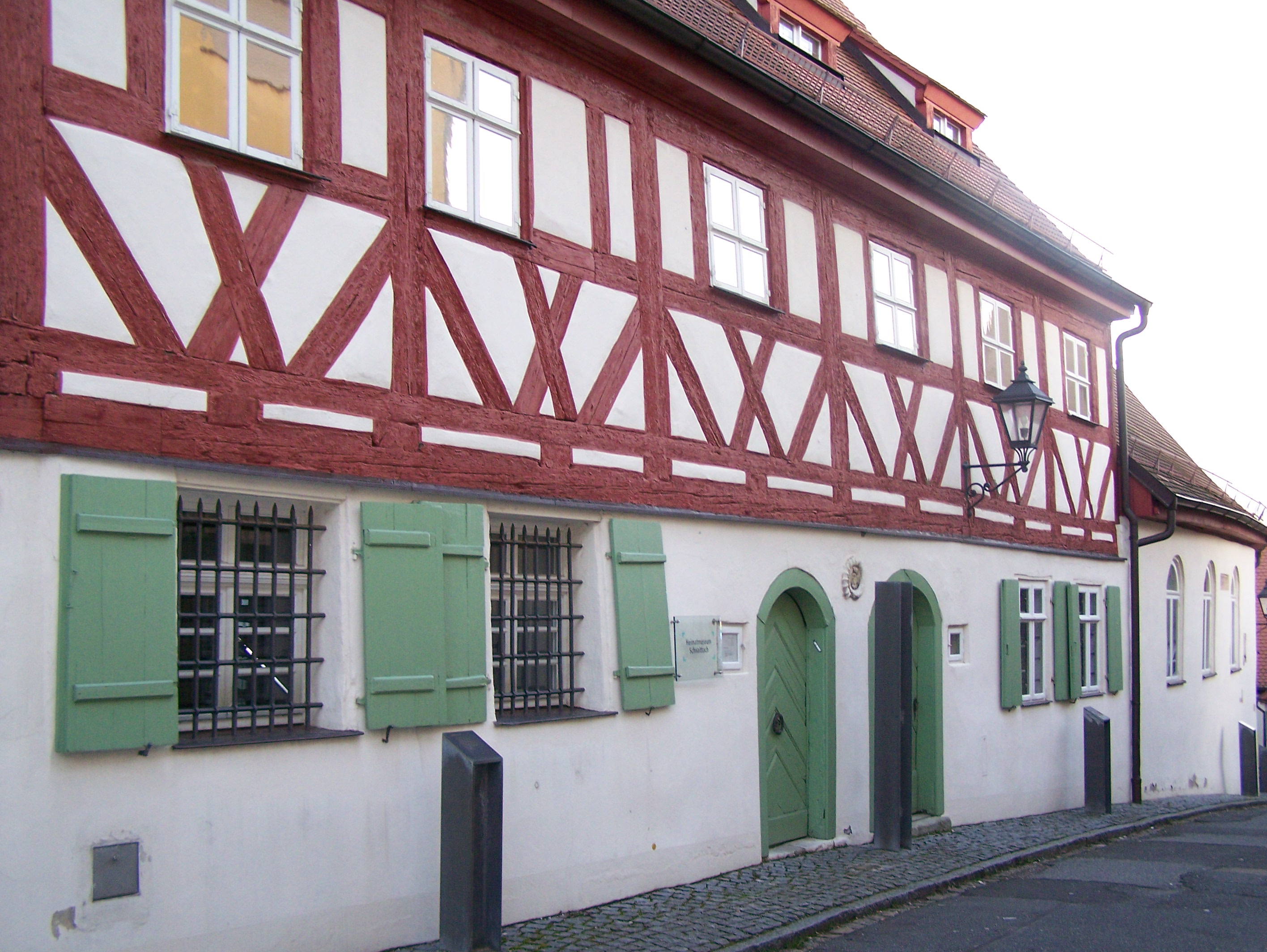 Jewish Museum of Franconia and museum of local history in Schnaittach, Germany.